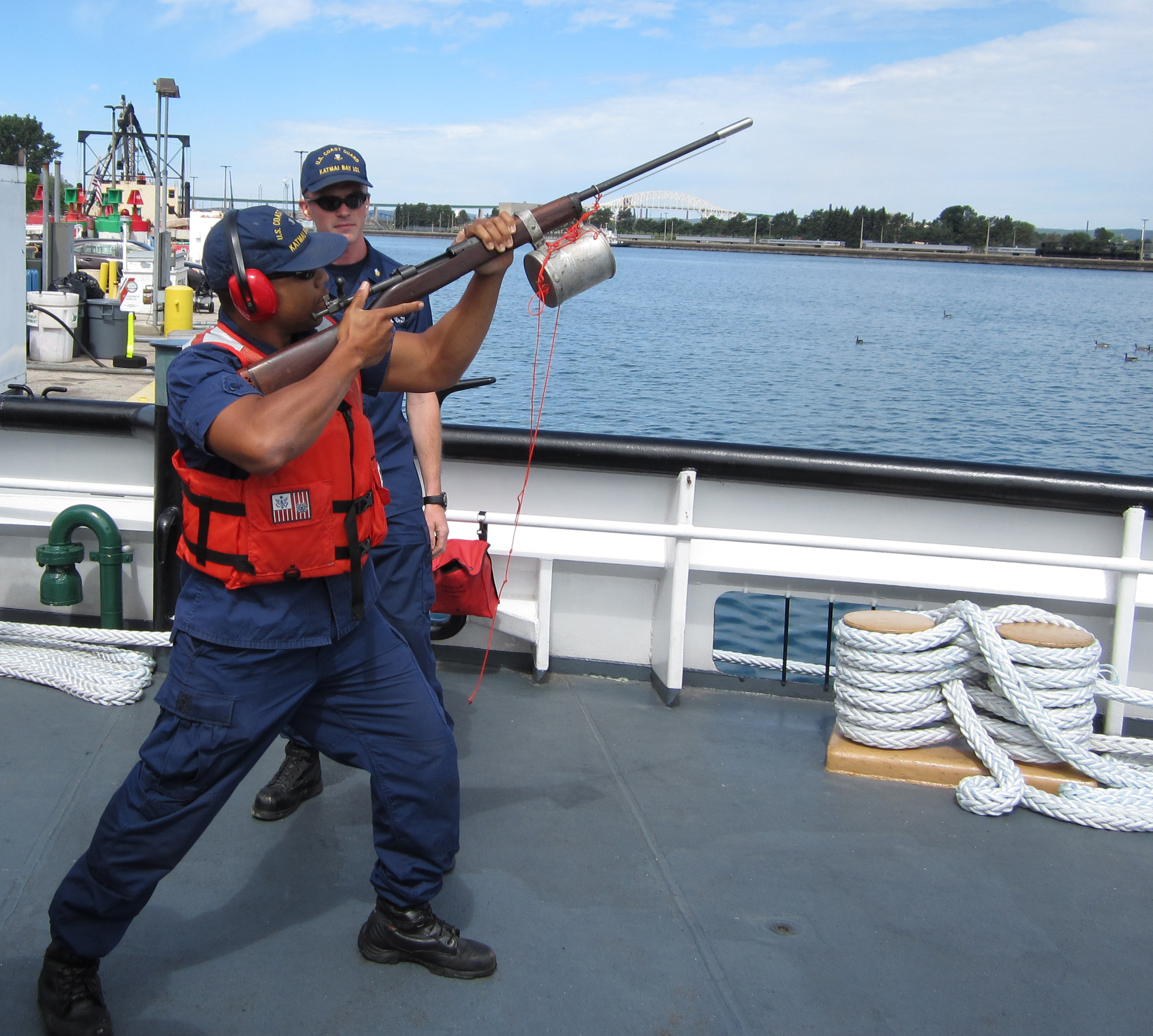 Coast Guard Petty Officer Ryan Smith, a crew member aboard the Coast Guard Cutter Katmai Bay, home-ported in Sault Ste Marie, Mich., demonstrates the proper way to fire the shoulder line-throwing gun during training on the cutter, while moored in Sault Ste Marie, July 30, 2013. The line-throwing gun is used to pass the messenger line for the towing hawser to another vessel in heavy weather conditions. (U.S. Coast Guard photo by Seaman James Ash)